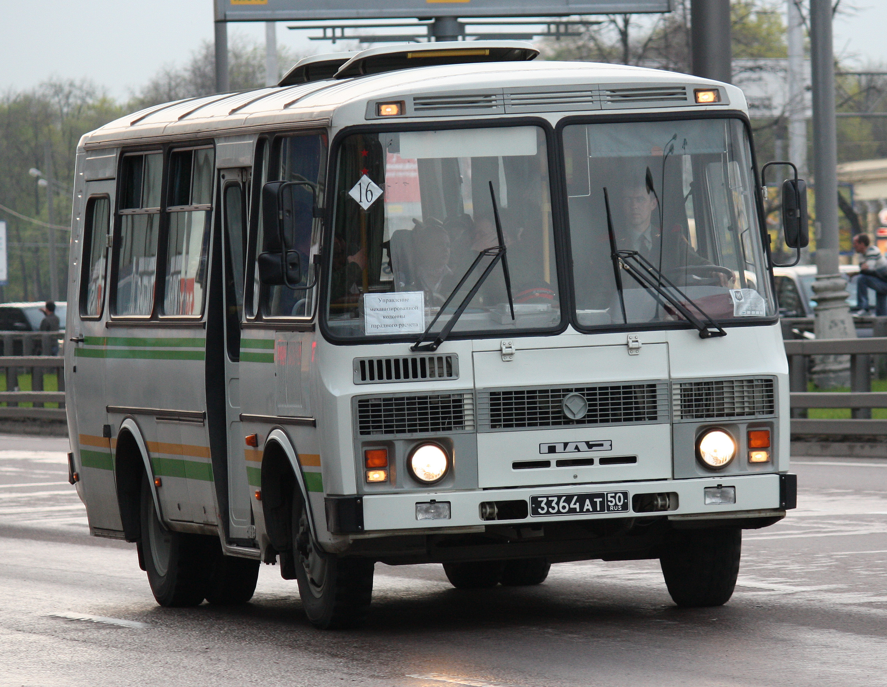 PAZ-3205 is a common Russian bus model made by the Pavlovo Bus Factory, it is common in Russia and other Eastern-European countries. Model 3205 was launched on December 1, 1989, replacing a similarly specified PAZ-672 (a 1968 model). PAZ buses are mainly used for urban Marshrutki, rural and regional services. Current PAZ buses are equipped with 120-140 horsepower Russian (ZMZ) or Ukrainian (MEMZ) diesel or petrol Euro III emission compliant engines, and have maximum speed of 90 km/h.PAZ is also offering installation of Hino Motors, Cummins, Andoria and BAMO imported engines for rear wheel drive models.Major current modifications include